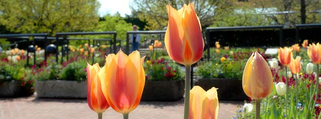 Chicago Botanic Garden Heritage Garden